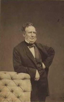 William Walker Stockfleth (amtmand) (1802-1885), Danish civil servant, county officer, politician, MP